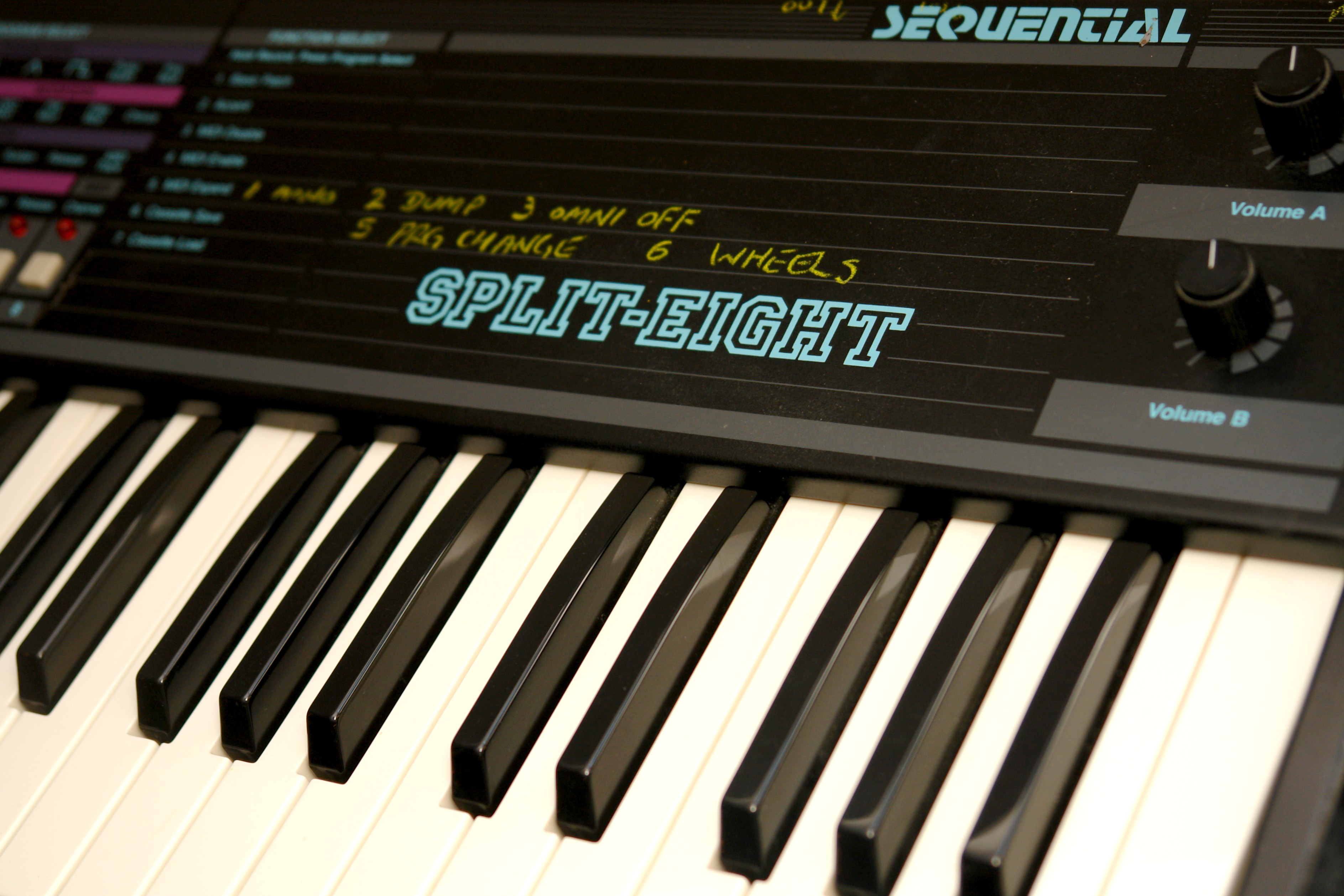 Photo taken by Wikipedia user Rwintle. A Sequential Circuits Split-8 synthesizer, marked up with grease pencil.